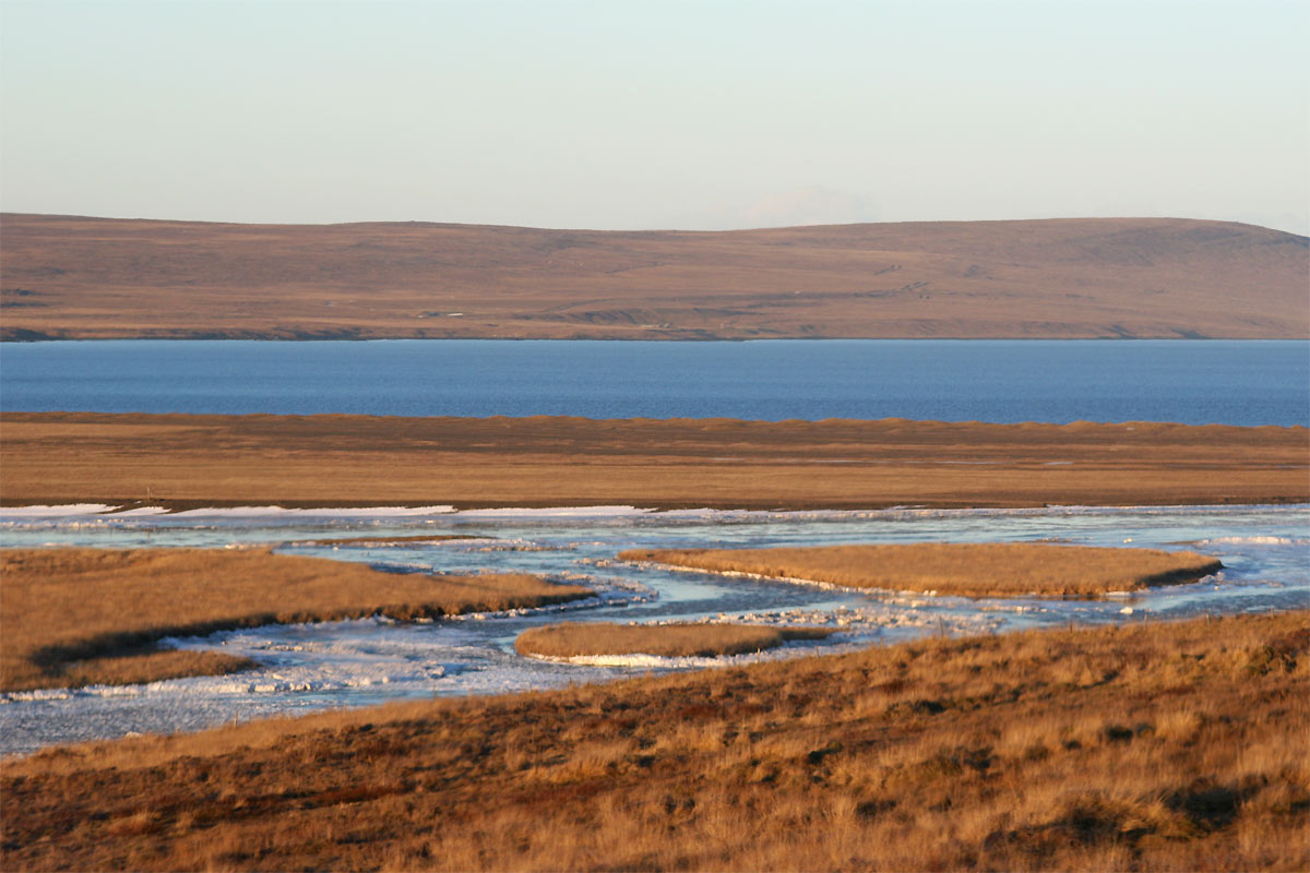 Marsh of Austurá, Miðfjörður and Heggstaðanes peninsula, November 21 11:57 Iceland, November 2007 Photo by me user debivort (or friend, with permission given to upload and license freely).